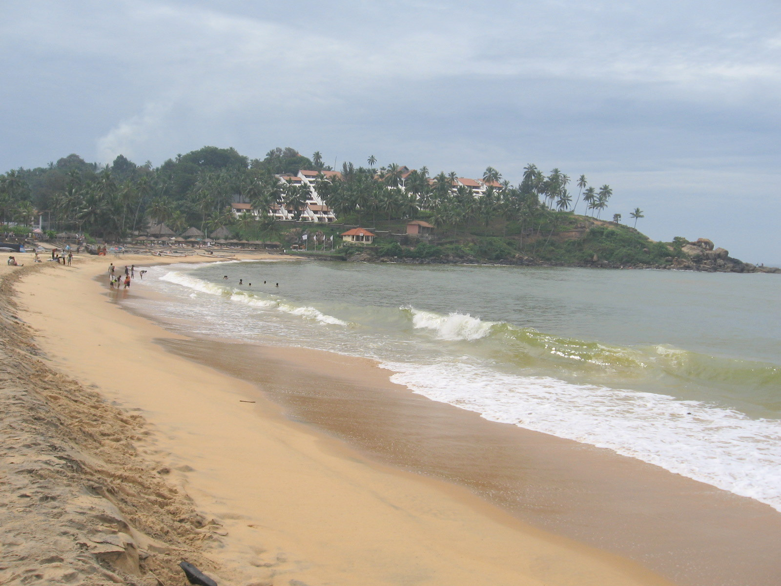 Kovalam beach with Leela Kovalam in the background